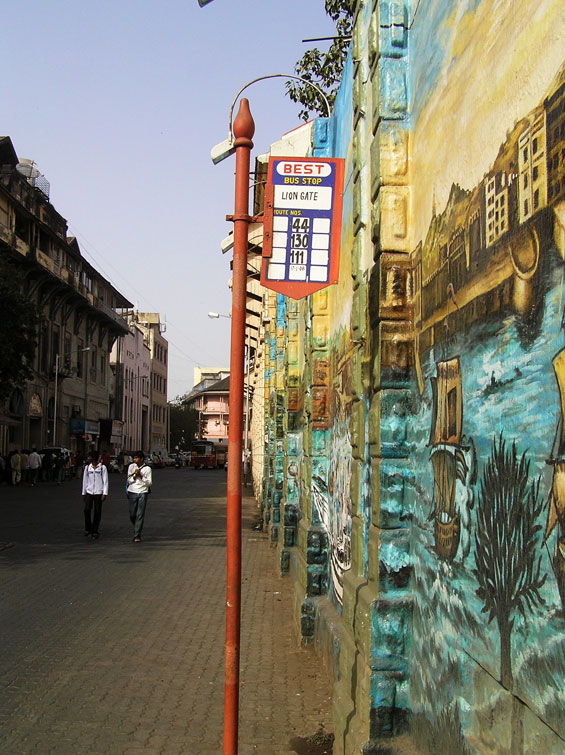 The Lions Gate bus stop by the decorated dockyard wall